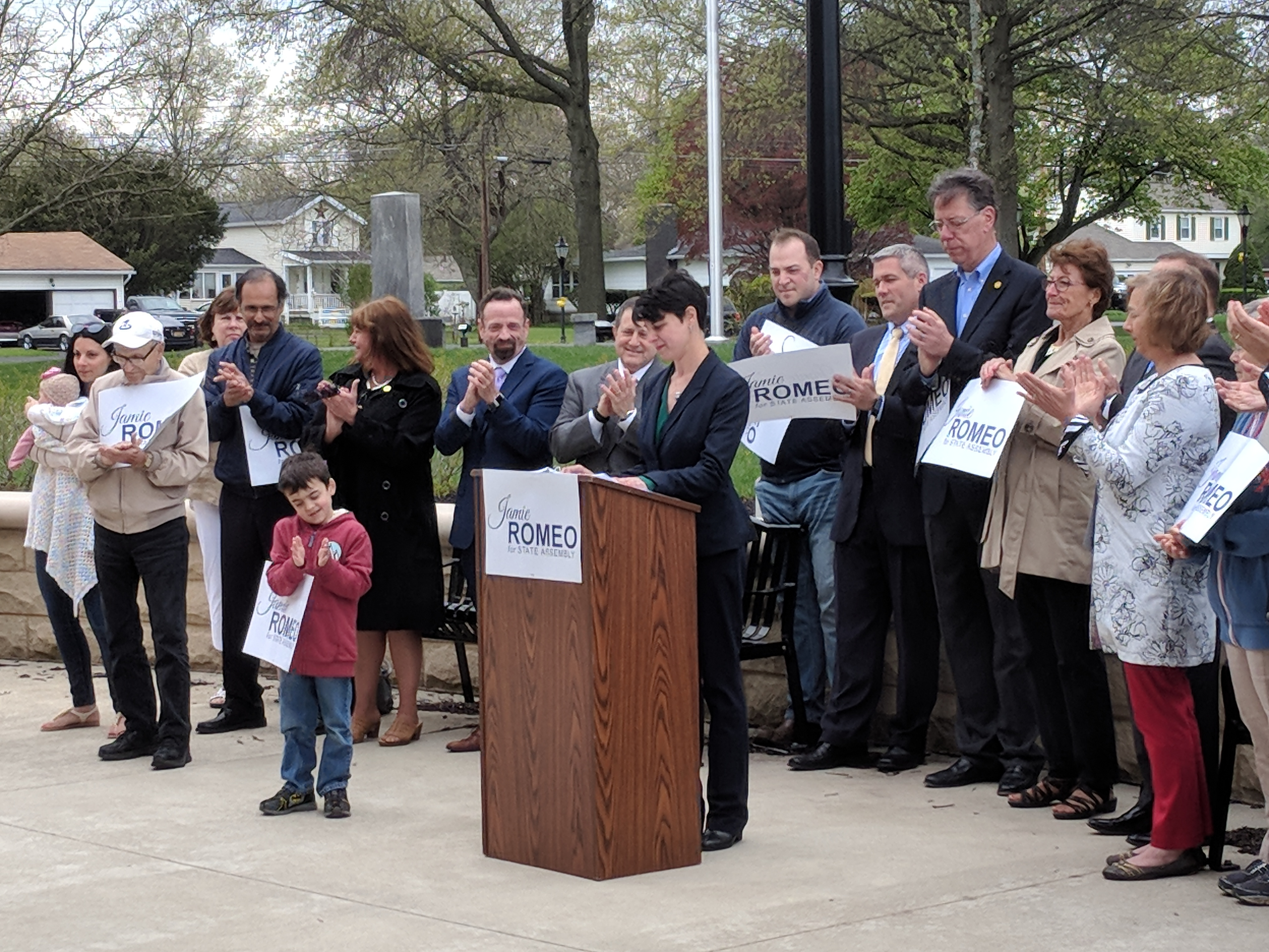 Jamie Romeo announces her candidacy for the 136th New York State Assembly district outside of the Irondequoit, New York library. Behind her are Harry Bronson, Joseph Morelle, Irondequoit Town Supervisor David Seeley, Monroe County, New York Clerk Adam Bello, Brighton Town Supervisor William Moehle.